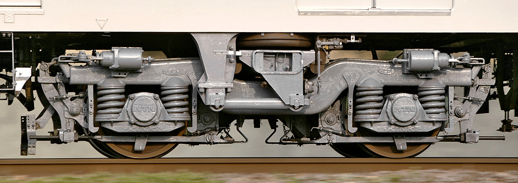 Kinki Sharyo Type KD76 truck of 8600 series.